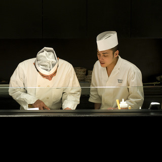 A picture of two of the Matsushita brothers.